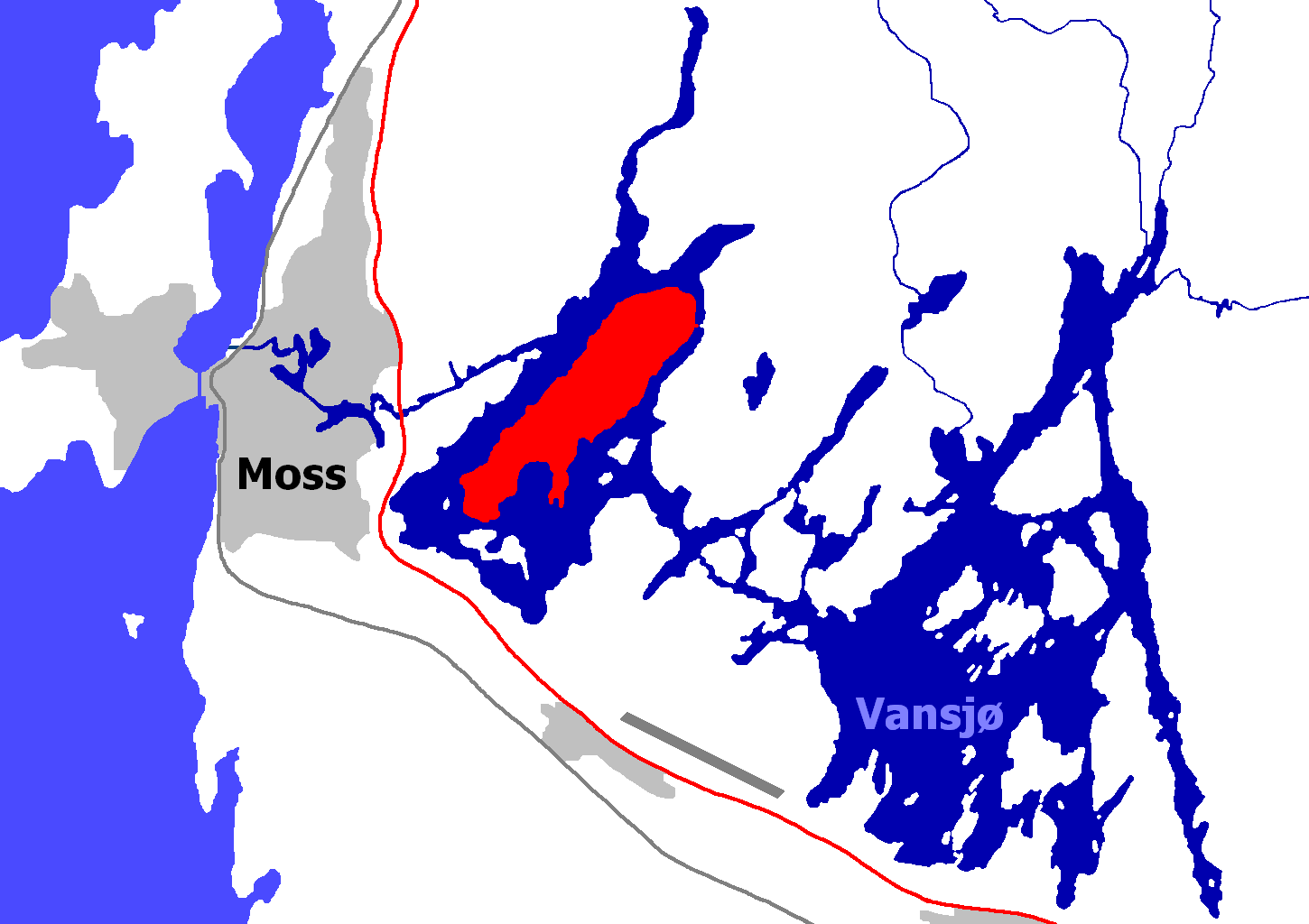 Map of the lake Vansjø. The island of Dillingøya in red. Created by JohnM 20:00, 20 May 2006 (UTC)